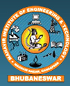 MIET Logo